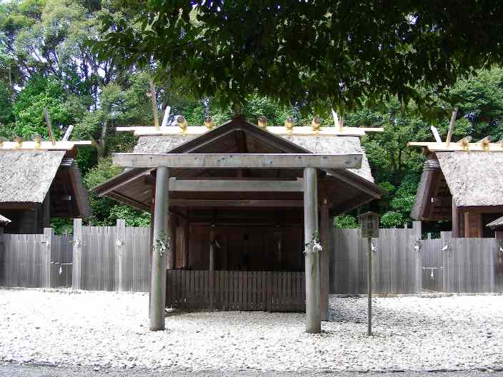 The Betsugu Tsukiyomi-no-miya Sanctuary of Kotaijingu(Naiku) at Ise city, Mie Prf., Japan.